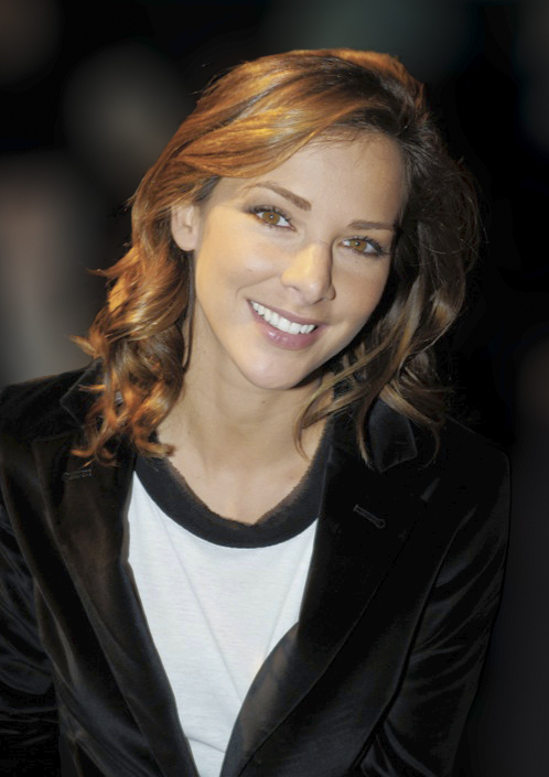 Melissa Theuriau attends Lebanese designer Elie Saab Haute-Couture Spring-Summer 2008 fashion show held at the Hotel Intercontinental in Paris, France, on January 23, 2008.